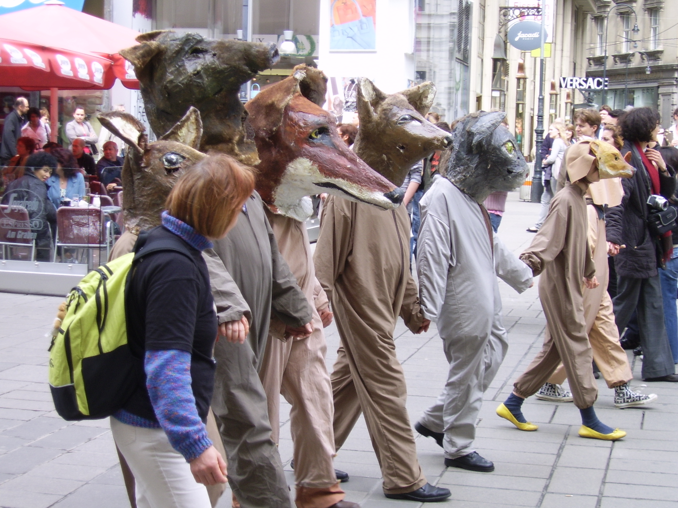 Protest against hunting wild animals